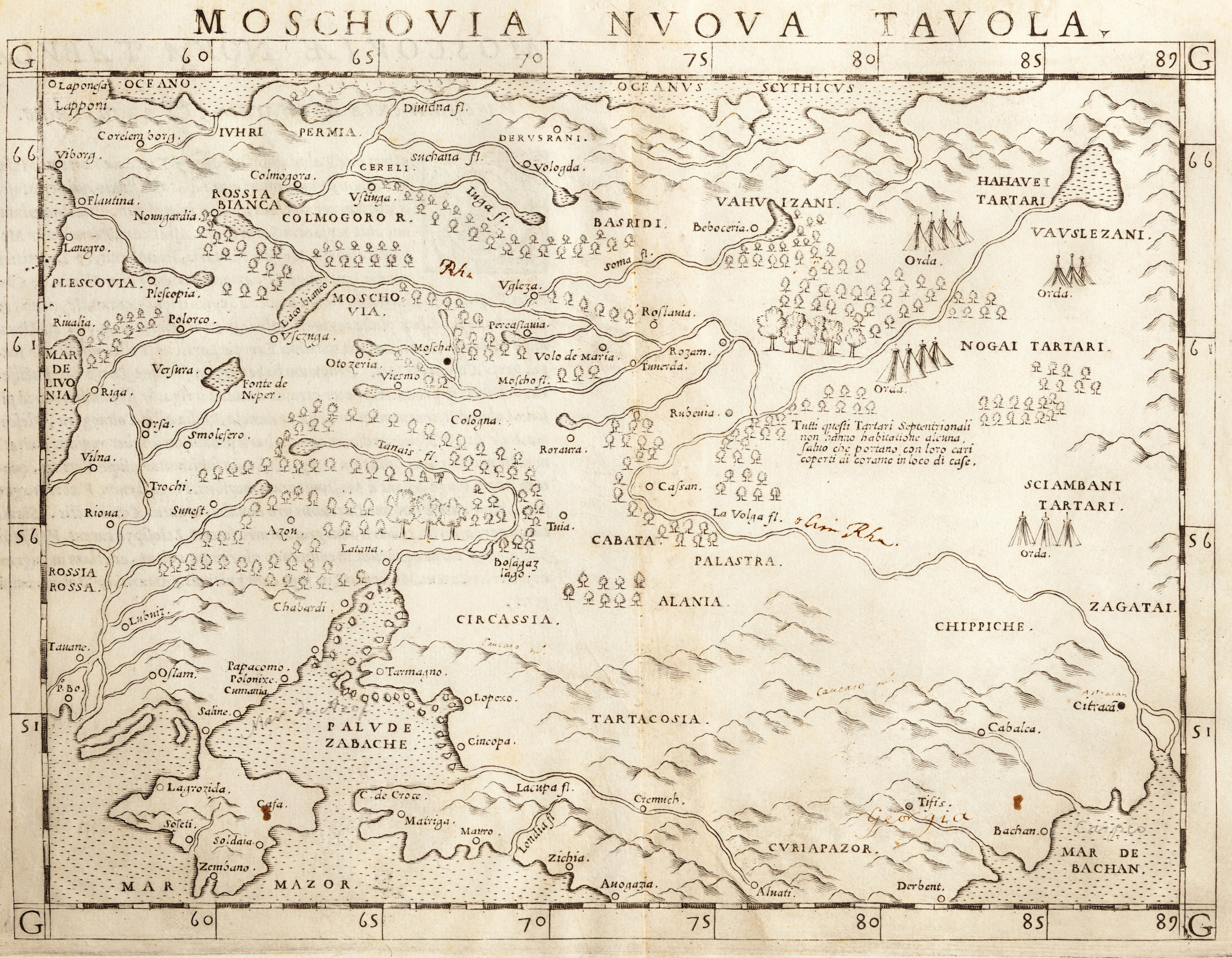 A New Map of Muscovy (Moschovia Nuova Tavola), an extra-Ptolemaic map from Roscelli's atlas